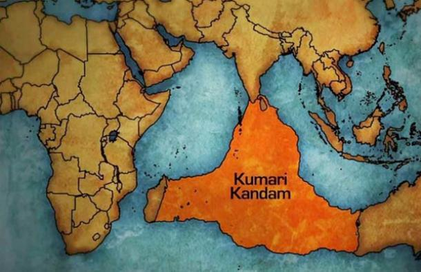 Kumari Kandam, the lost continent.